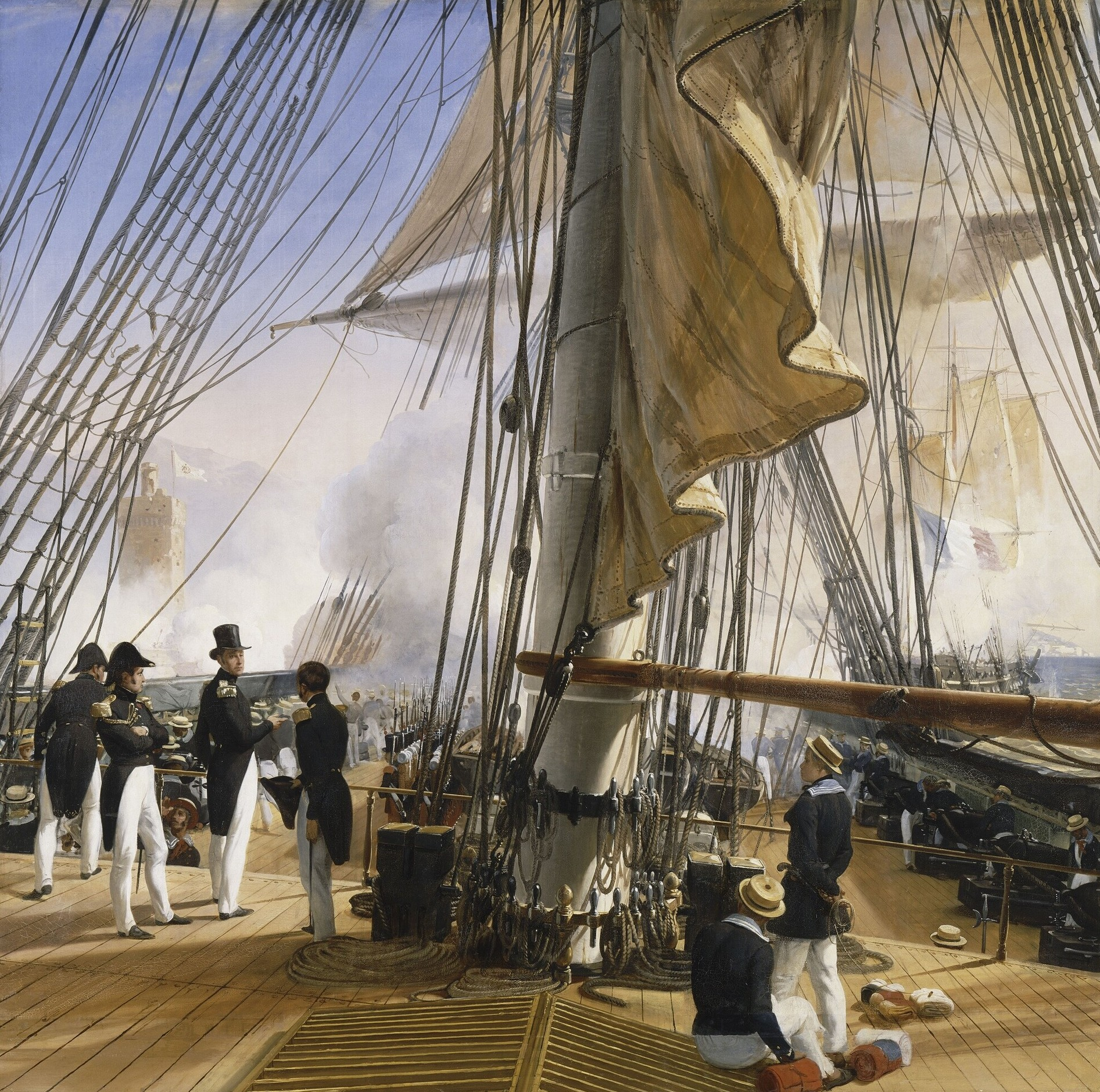 Quarterdeck of a ship of the line (the flagship Suffren?) during the Battle of the Tagus.